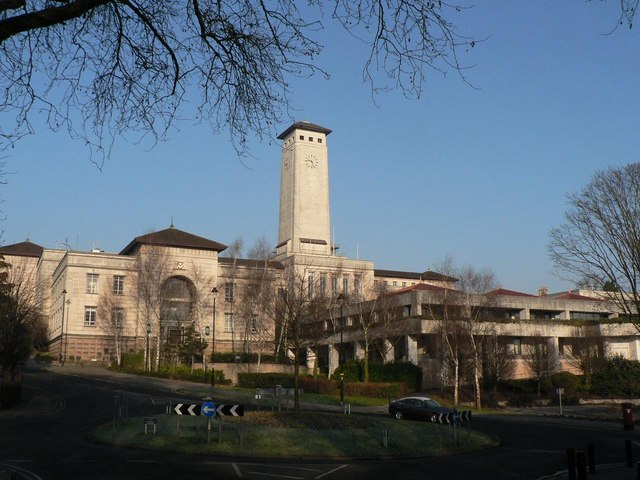 Newport: Civic Centre